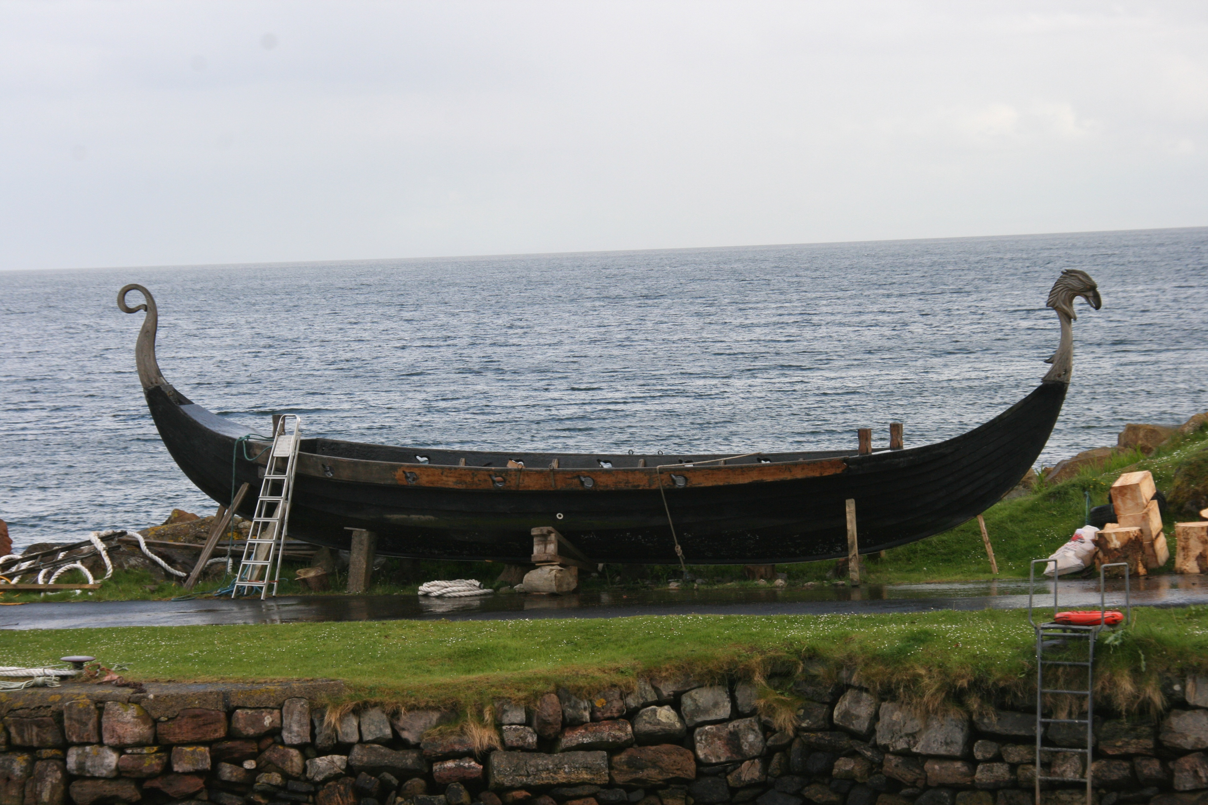 A viking boat, Arran.